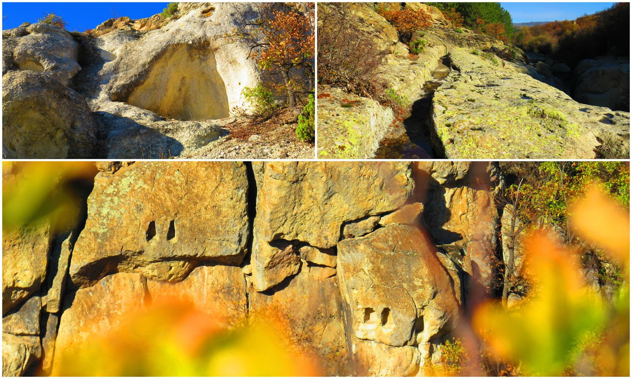 Kyuchuk_Beyug_Kazan_Rhodopes_BG